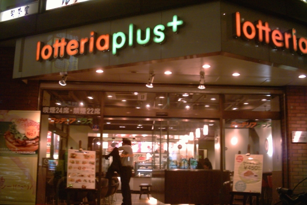 Lotteria_plus+_Fast food restaurants Japan photography day, 2006.11.14. photography person kici